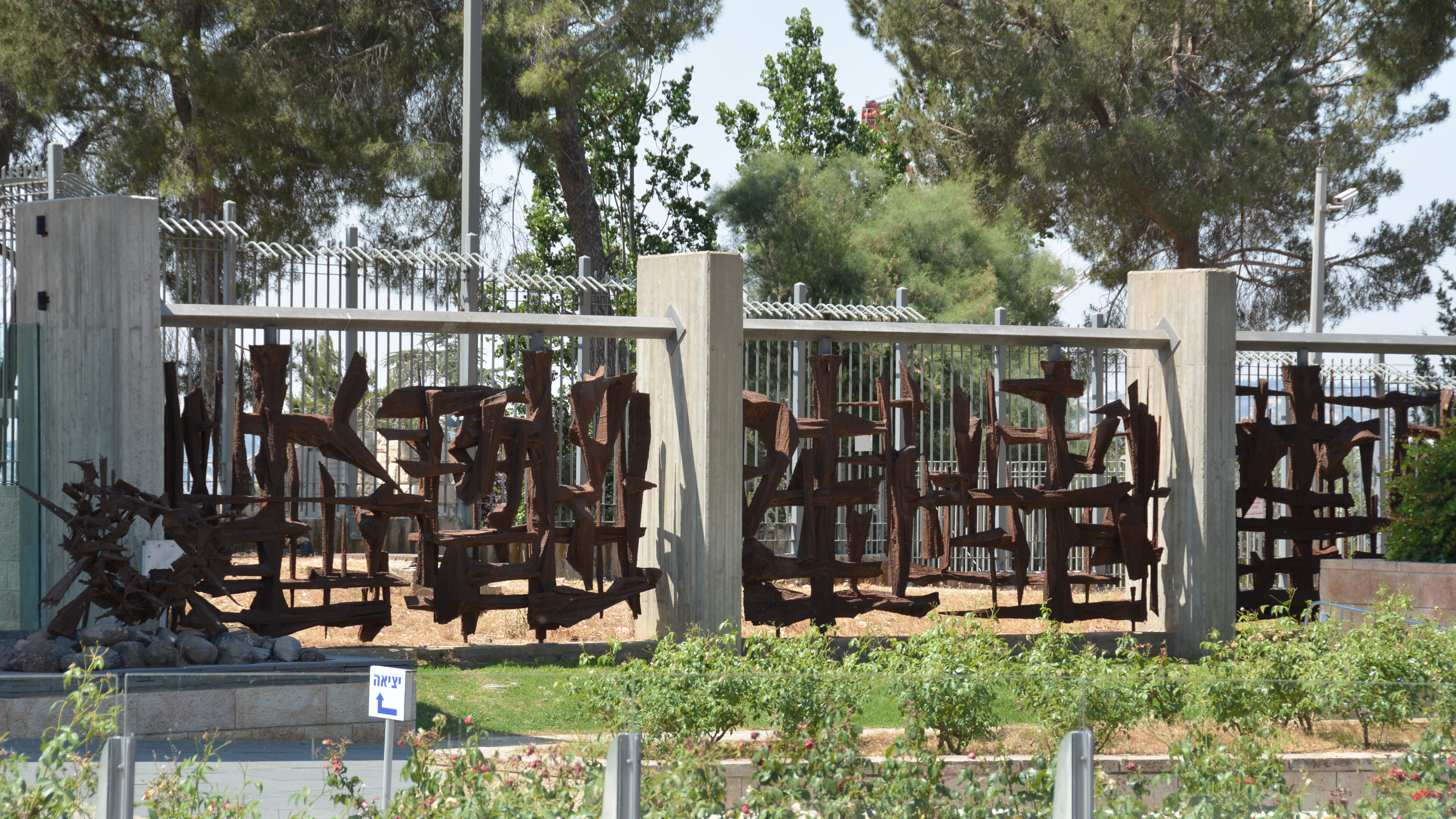 Bone sculpture in front of the Knesset in Jerusalem - the dry bones of Israel become alive as the Prophet Ezekiel in chapter 37 in the Bible foretold